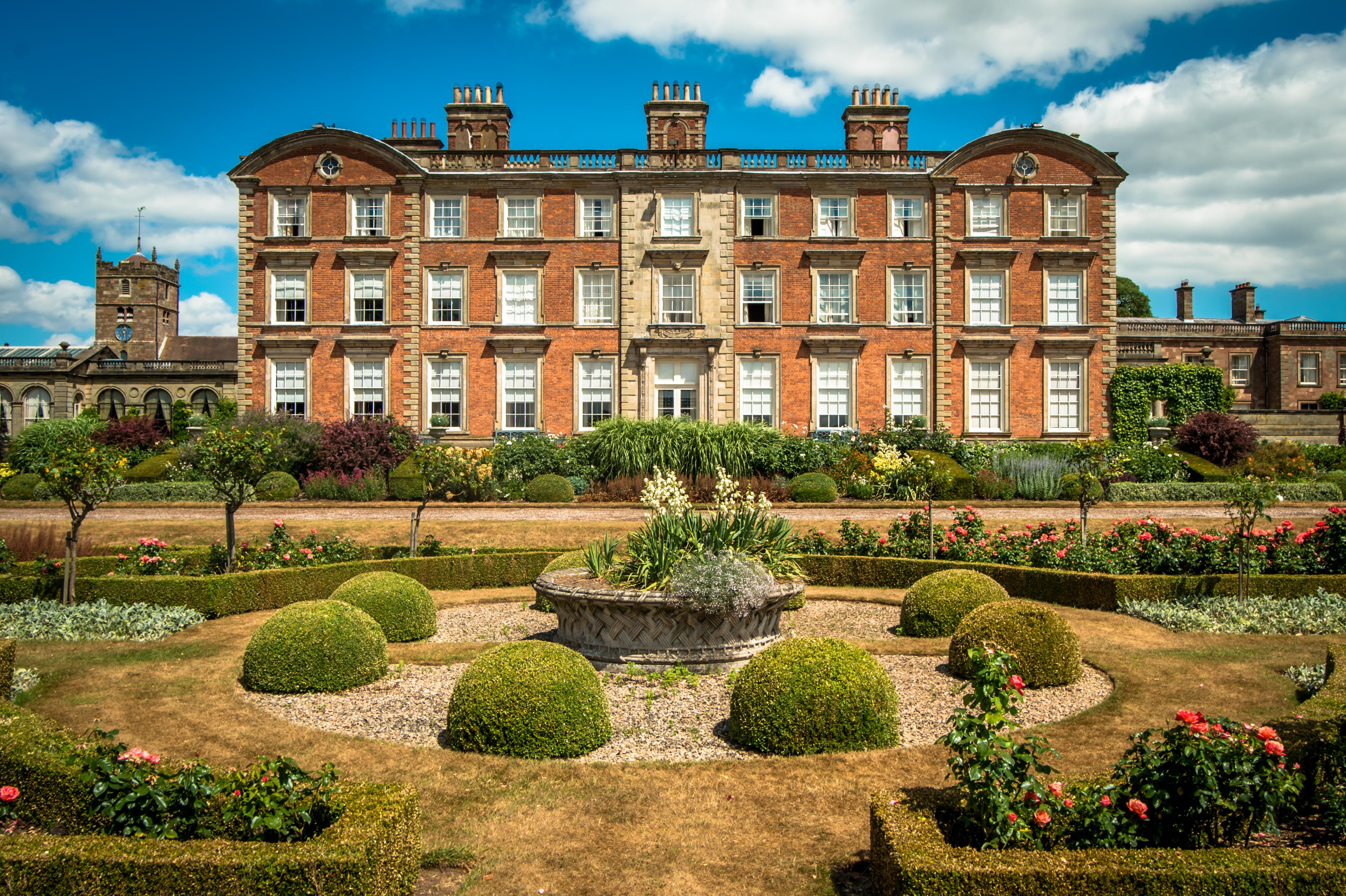 The south from of the country house at Weston Park, Weston-under-Lizard, Staffordshire in July 2018.